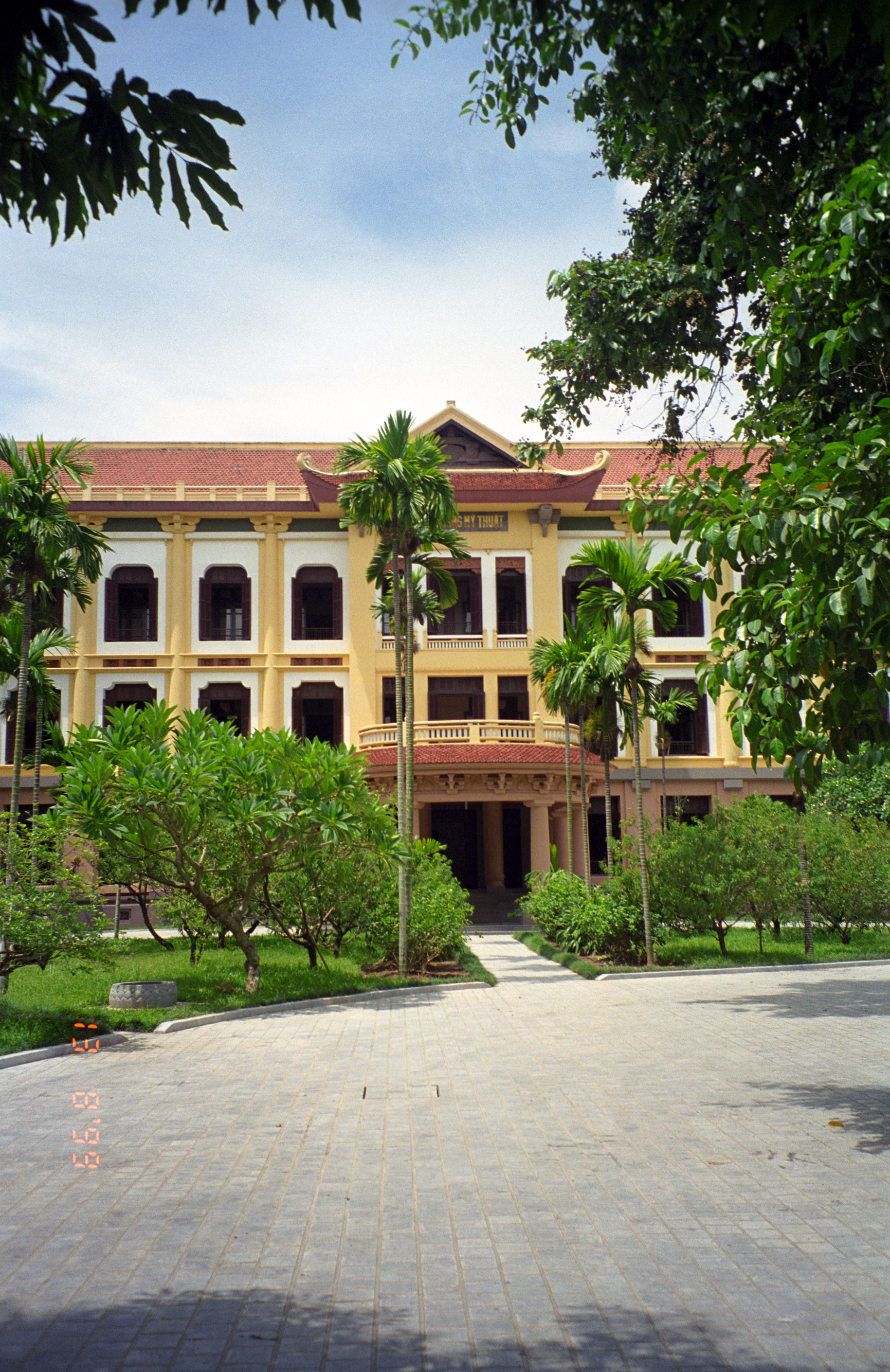 Museum of Arts in Hanoi.